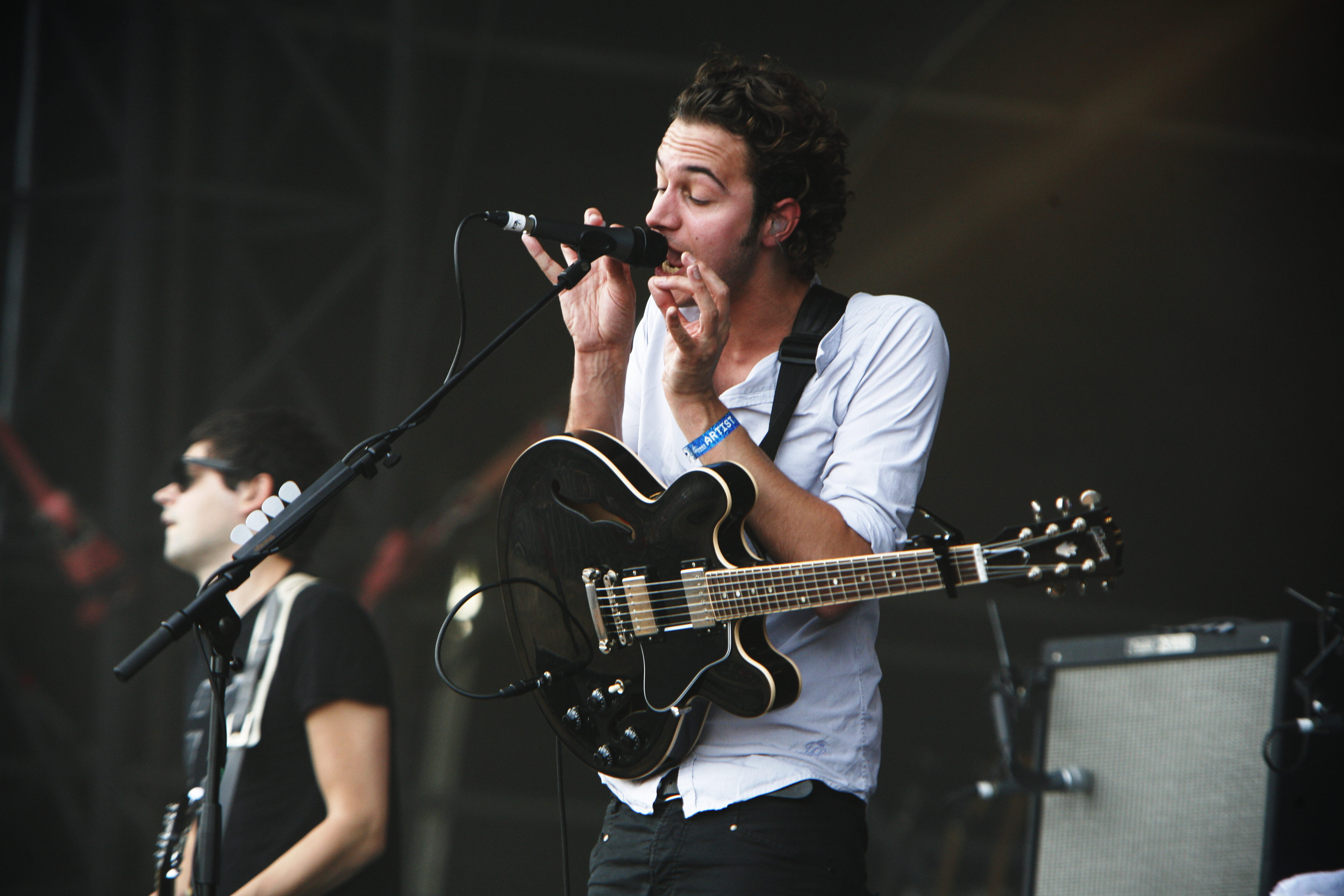 Editors at the Eurockéennes of 2007